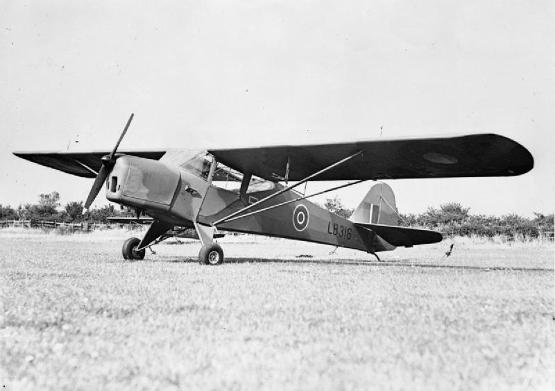 Aircraft of the Royal Air Force 1939-1945- Taylorcraft Auster. Taylorcraft Auster AOP Mark I, LB316, at the Taylorcraft Auster production facility at Rearsby, Leicestershire. LB316 enjoyed a long service career with Nos. 654, 652 and 656 Squadrons RAF, No. 43 Operational Training Unit and No. 22 Elementary Flying Training School, before being reduced to an instructional airframe in April 1945.